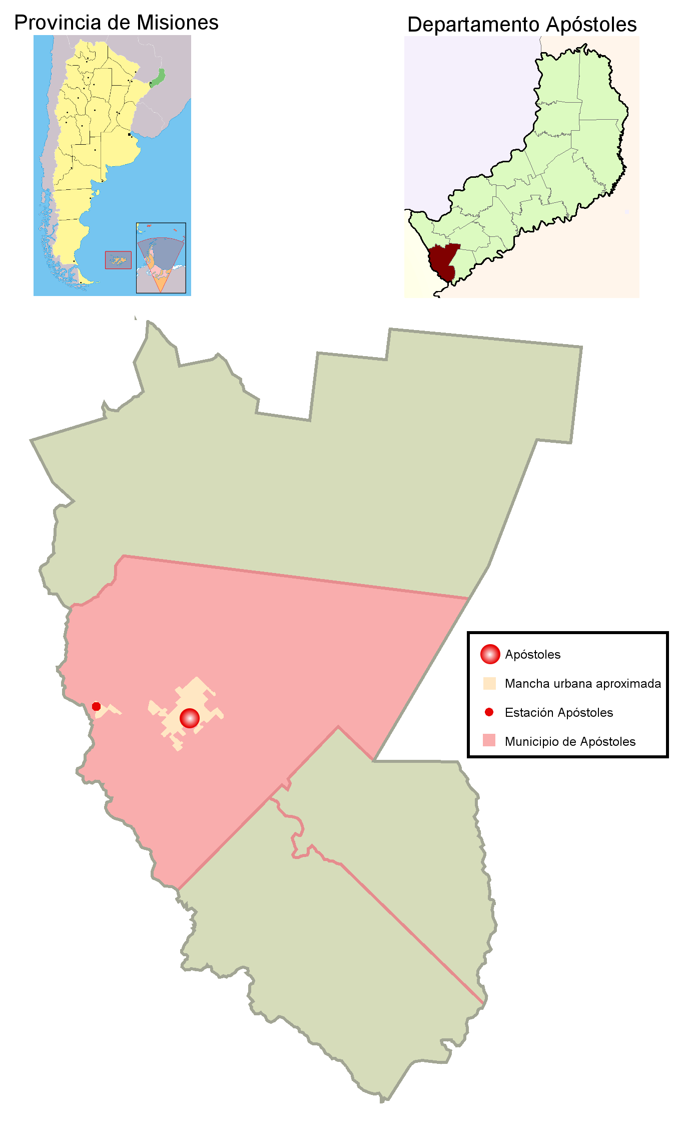 A map showing municipio of Apóstoles in Apóstoles departament, Misiones province, Argentina. Also shows Apóstoles town location, Estación Apóstoles town location and their urban sector. Created with GIMP.